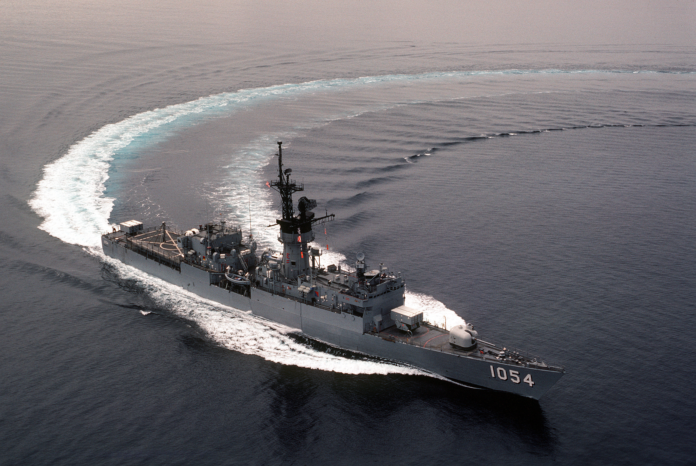 A high-angle starboard bow view of the Knox class frigate USS GRAY (FFG-1054) executing a turn off the coast of California.